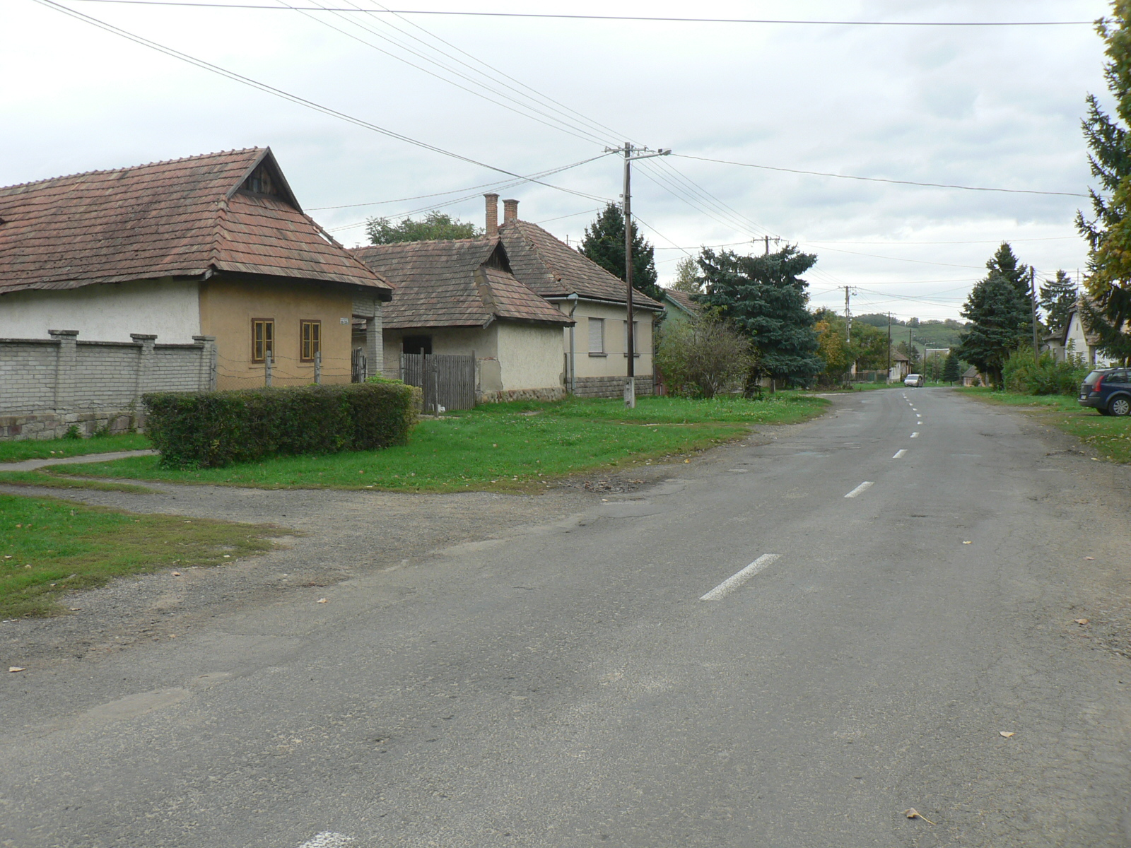 Szátoki utcakép, bal oldalt hagyományos stílusban épült lakóházakkal